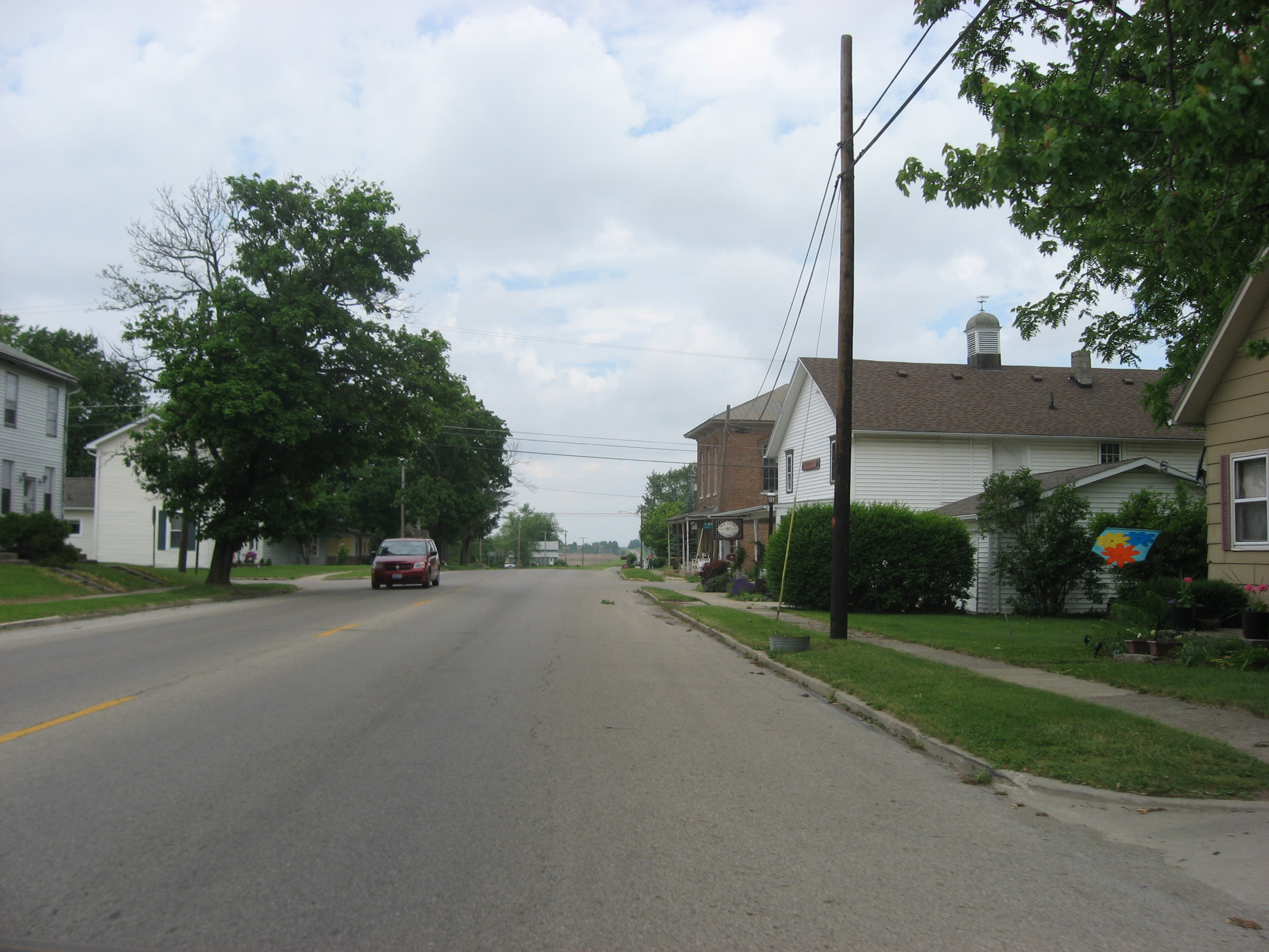 Looking westward along State Route 29 in Mutual, Ohio, United States.